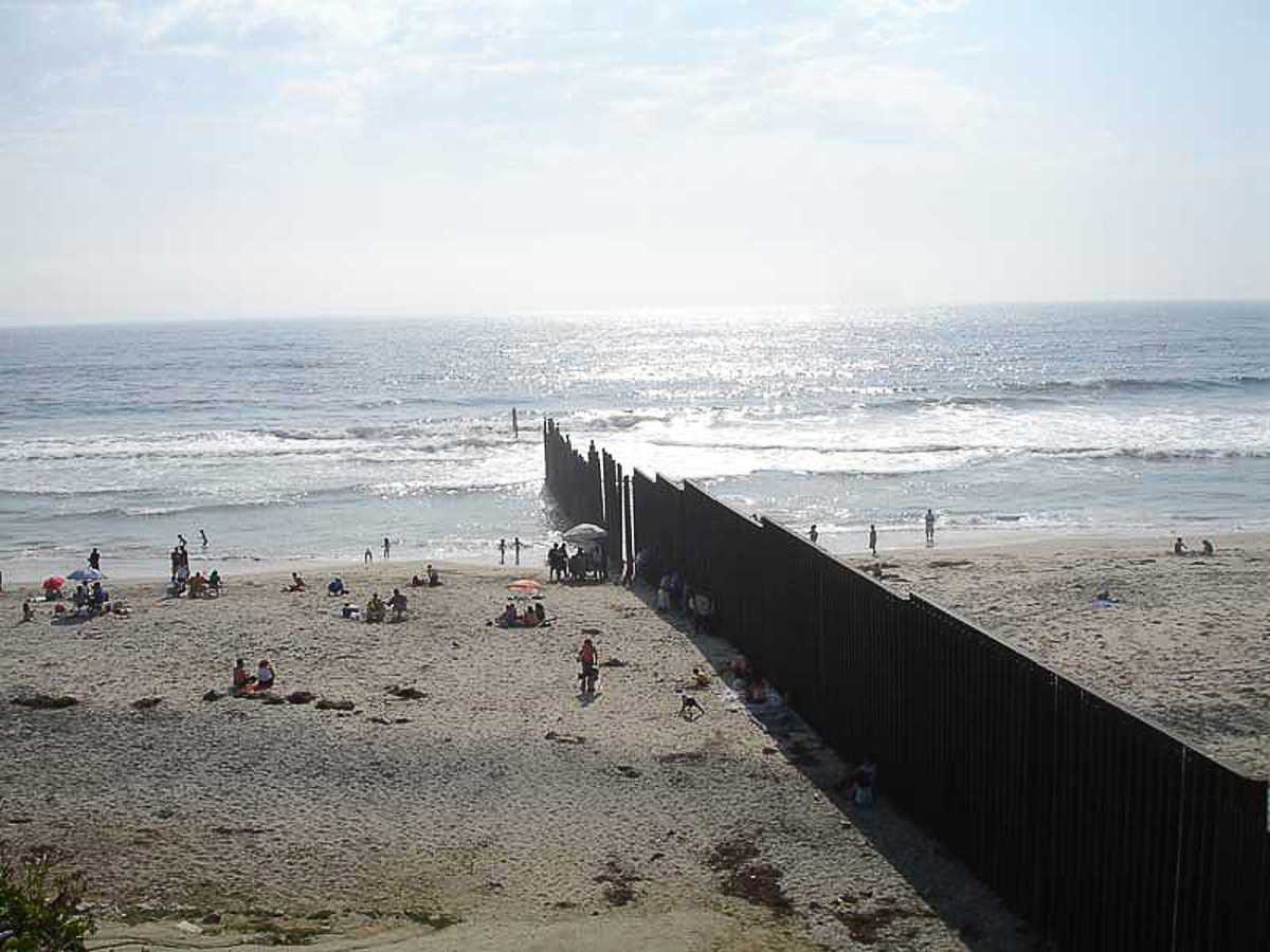 The beach on the Pacific Ocean at the U.S.-Mexico border from the Mexican side.